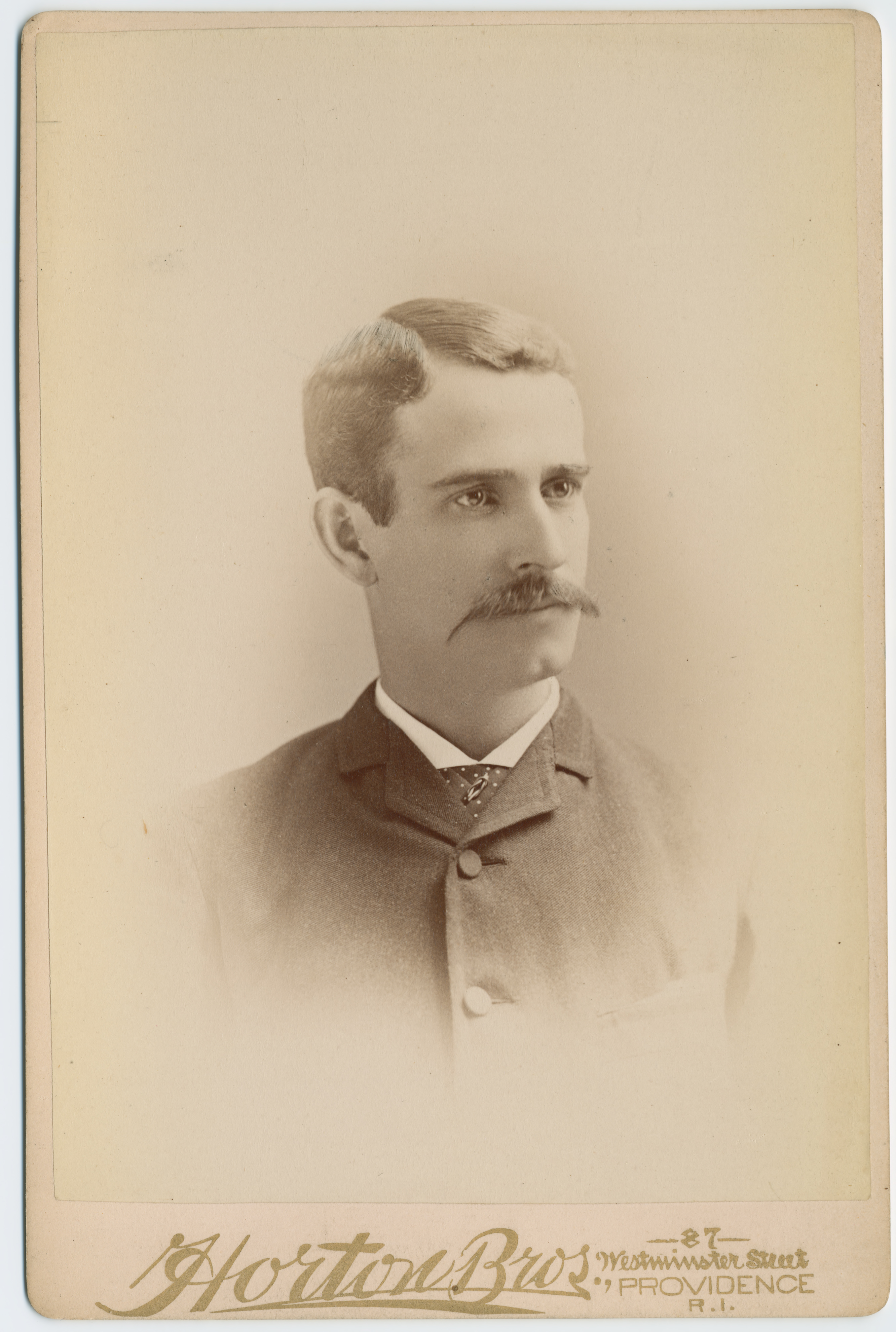 Dr. Charles V. Chapin in 1885, professor of physiology. Later, the recipient of many medals and awards in the field of public health.